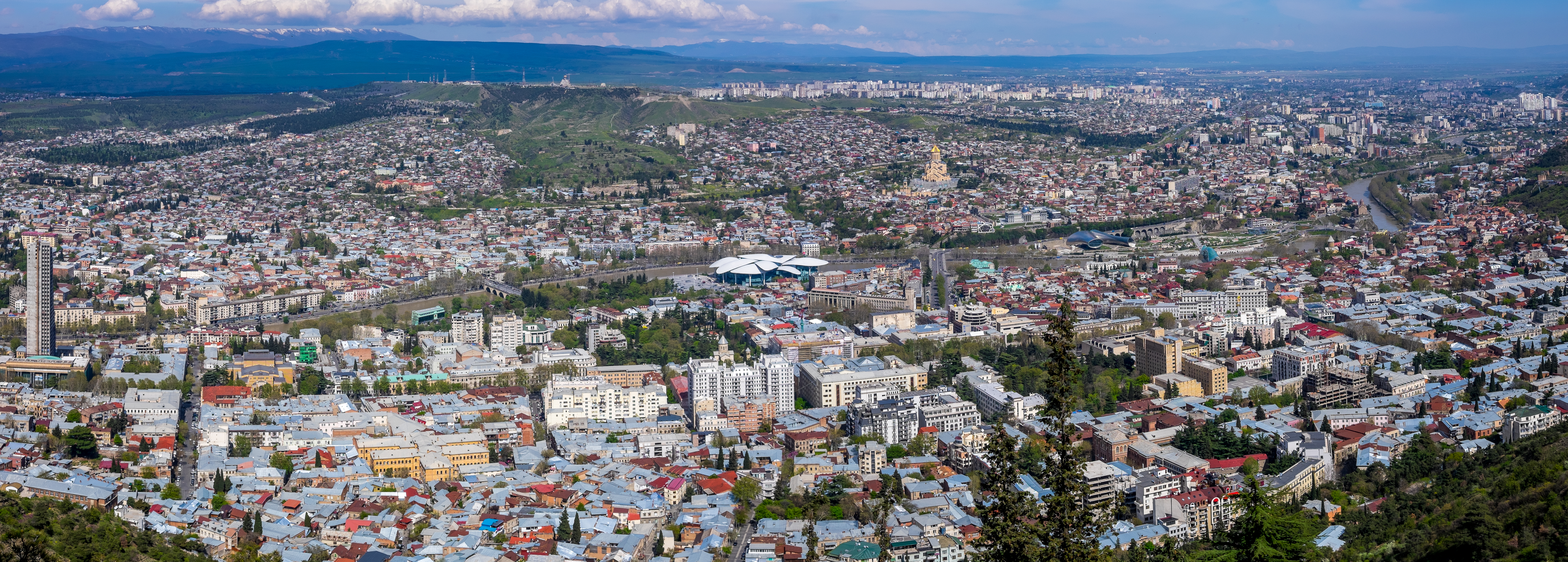 Panorama of Tbilisi Views of Tbilisi. 2015.